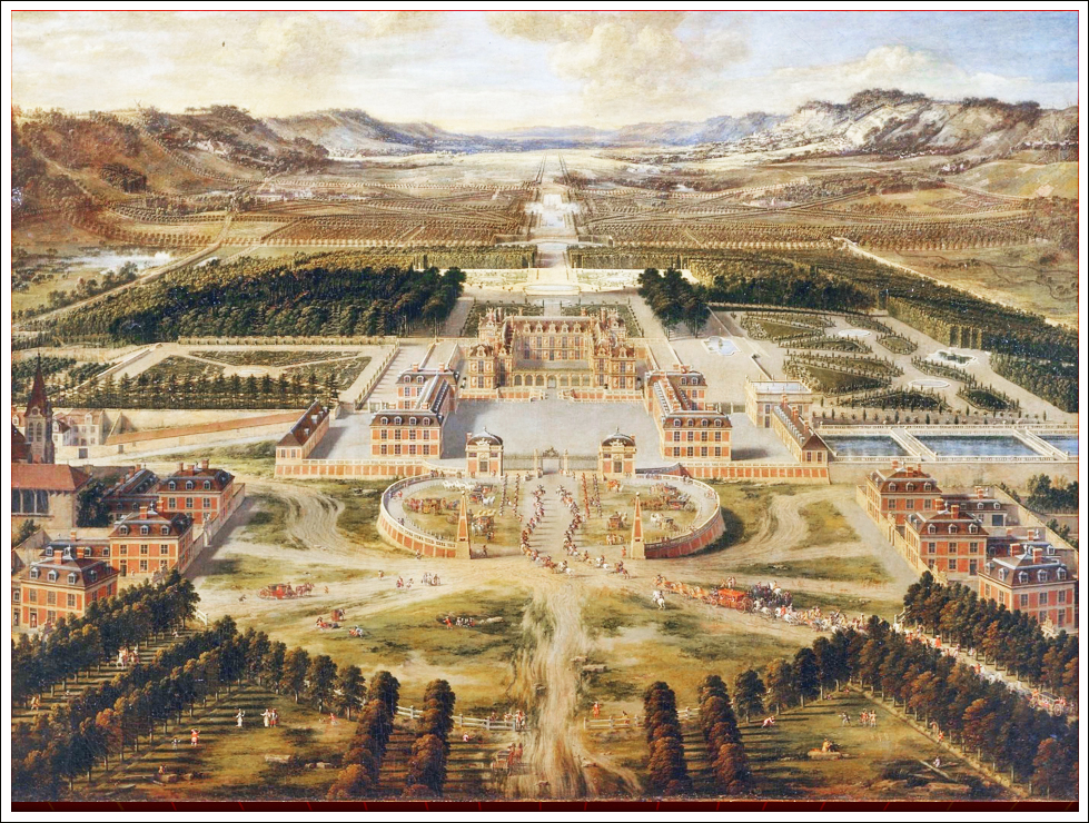 Marly Machine. The Palace of Versailles by 1668, painted by Patel.